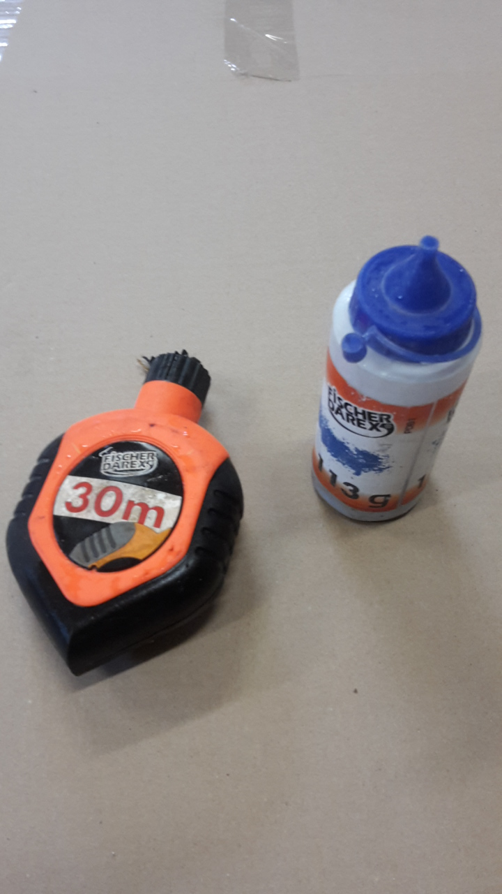 Chalk line and refill